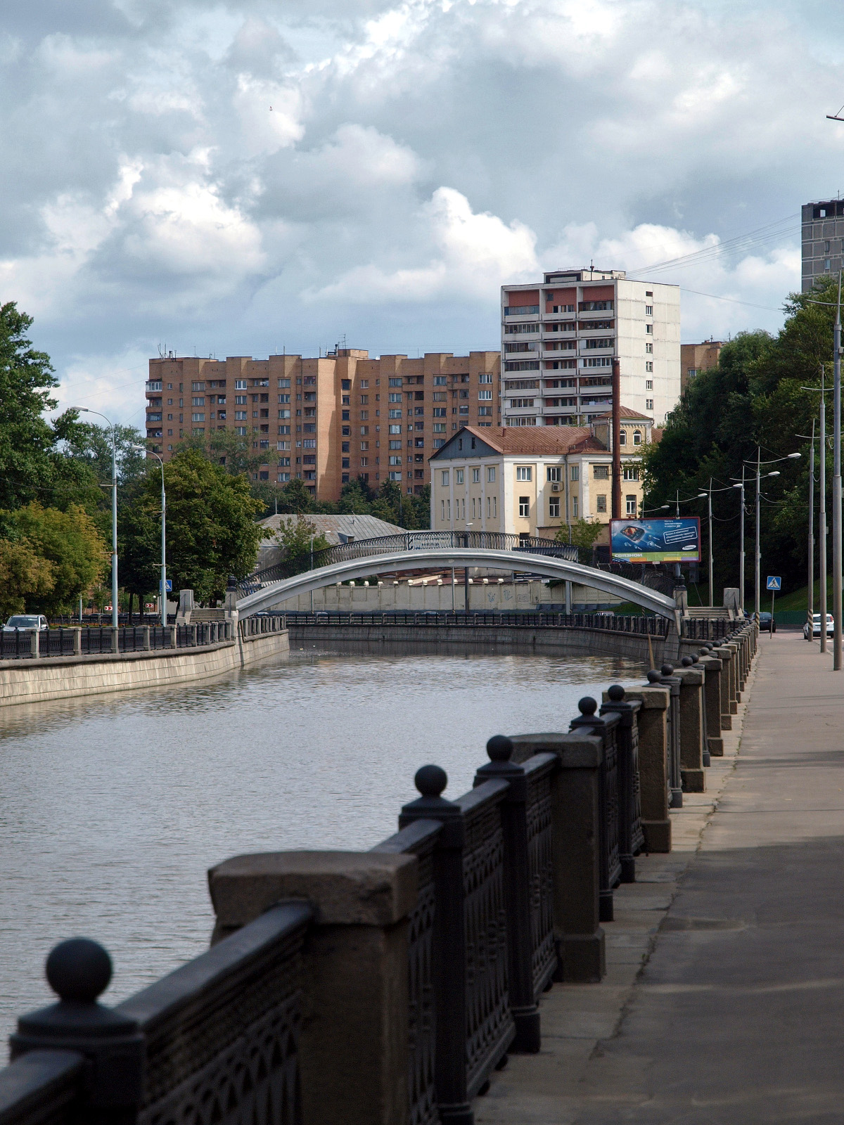 Krasnokazarmennaya Embankment, Moscow.